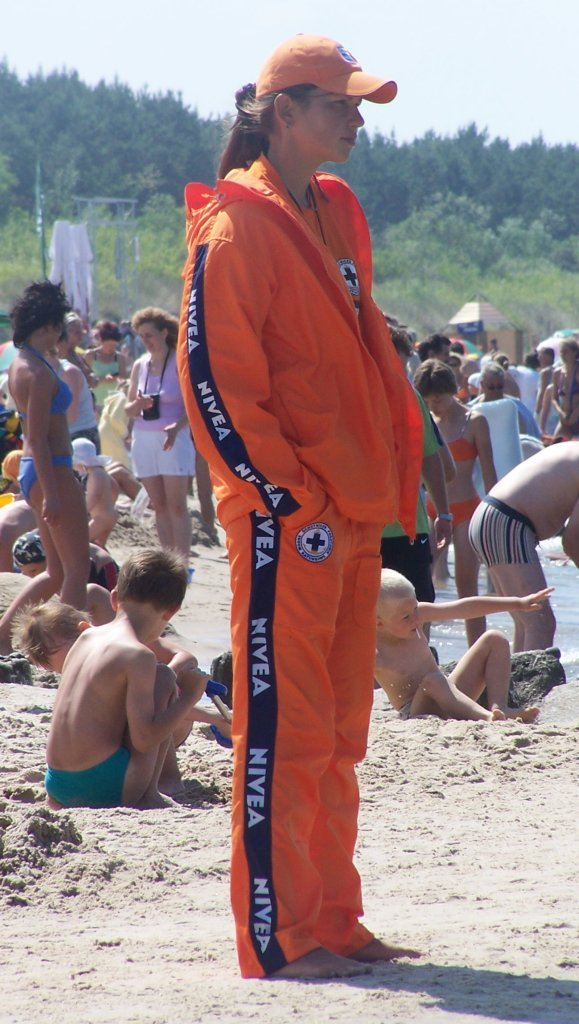 WOPR lifeguard on beach in Dziwnówek, Poland.